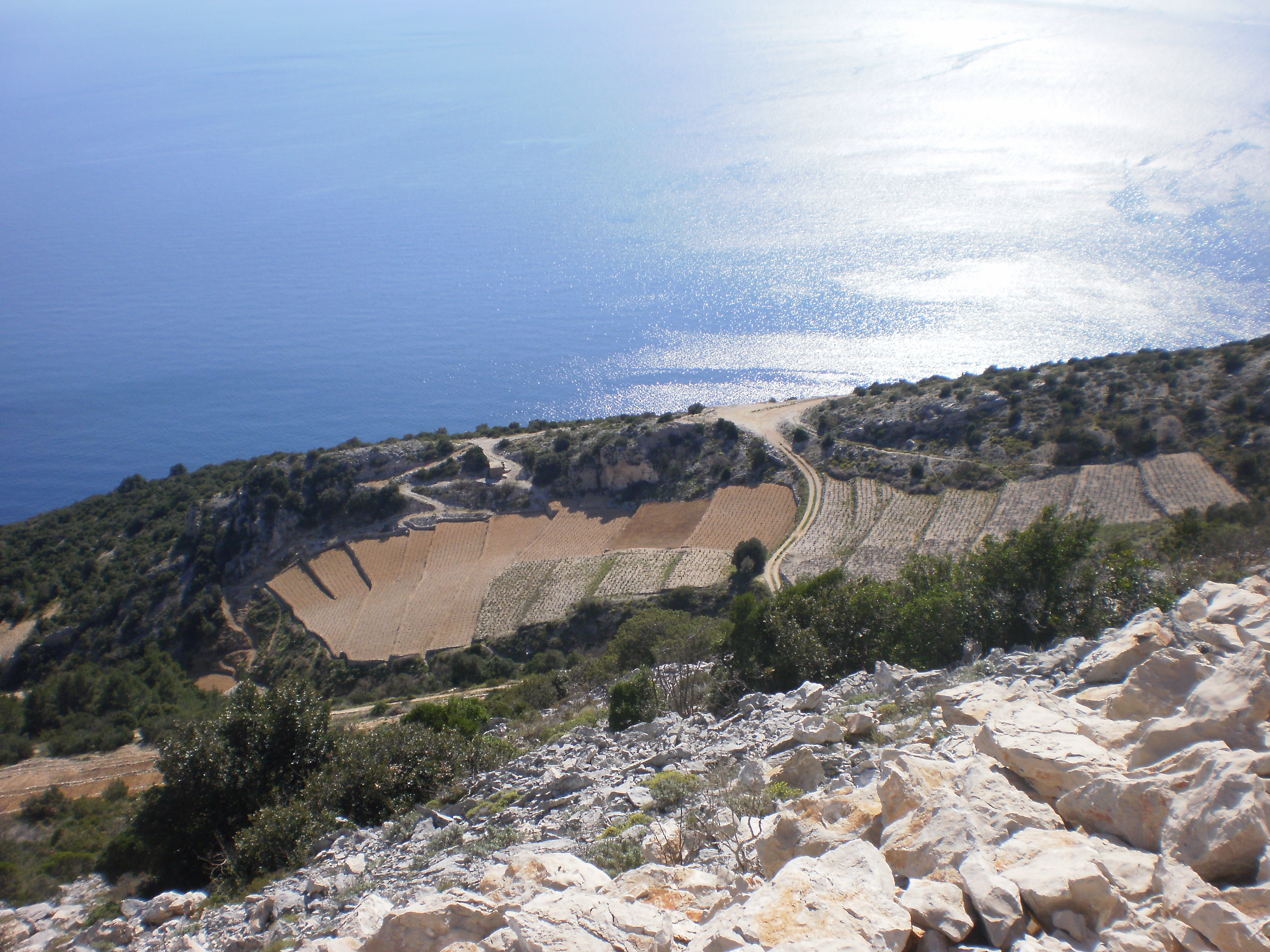 Panorama photo on the south part of Pelješac